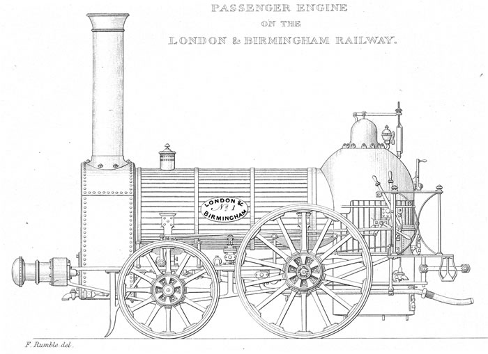 Edward Bury and Company bar framed 2-2-0 passenger locomotive for the London and Birmingham Railway.